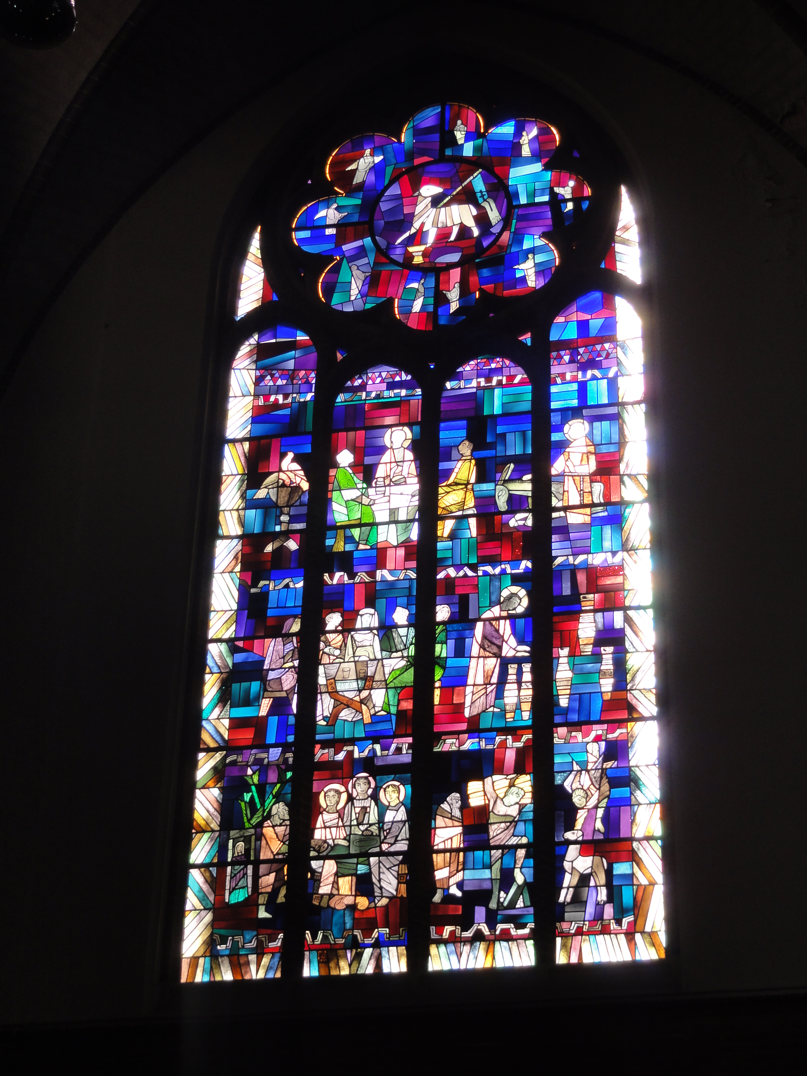 Nijmegen, Antonius van Padua kerk, raam 15. Vier ramen uit 1957 van Lambert Simon in het transept van de kerk. Bron:avpnijmegen gebouw/glas-in-lood